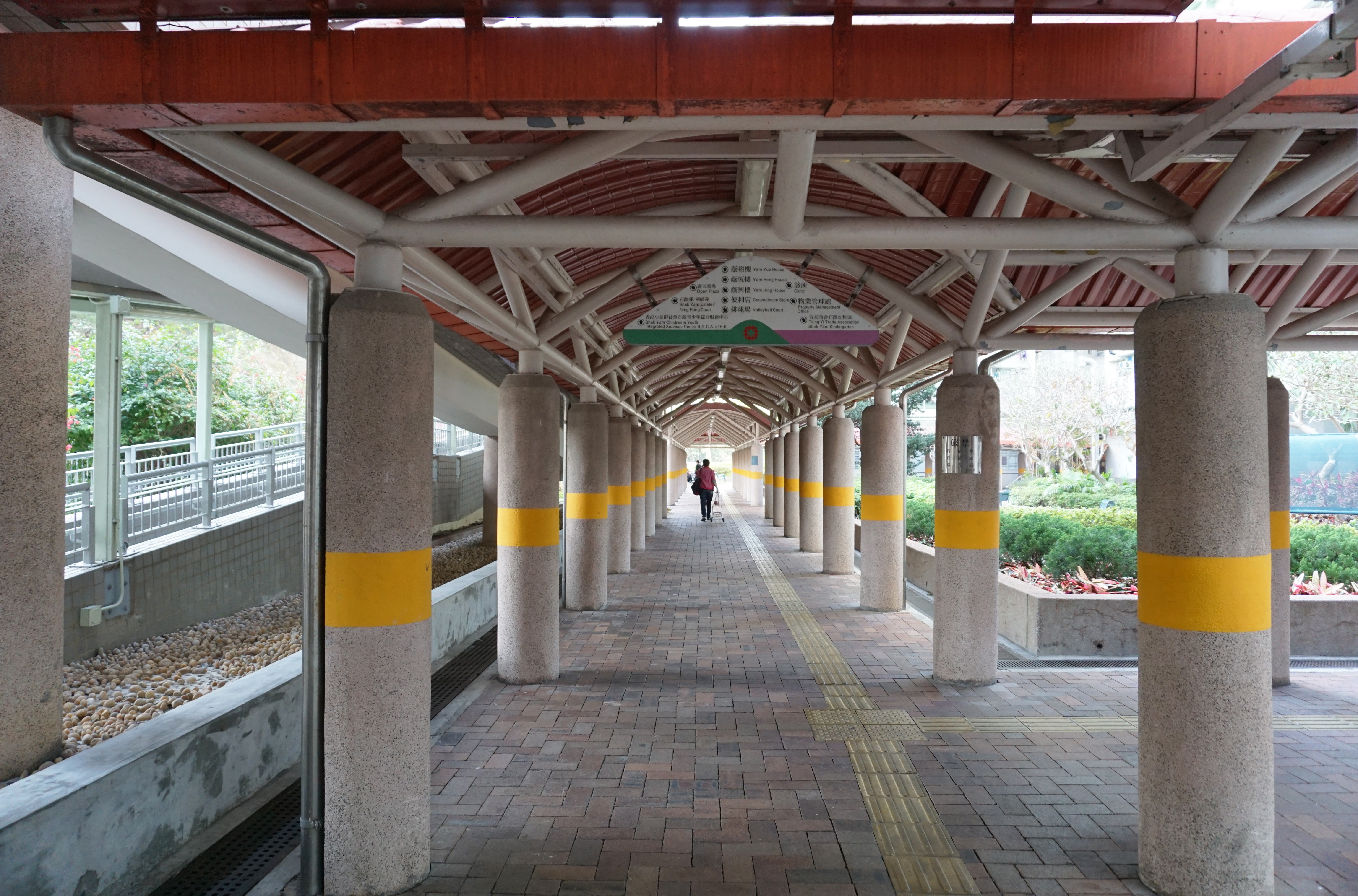 Shek Yam East Estate in Shek Yam, Hong Kong.